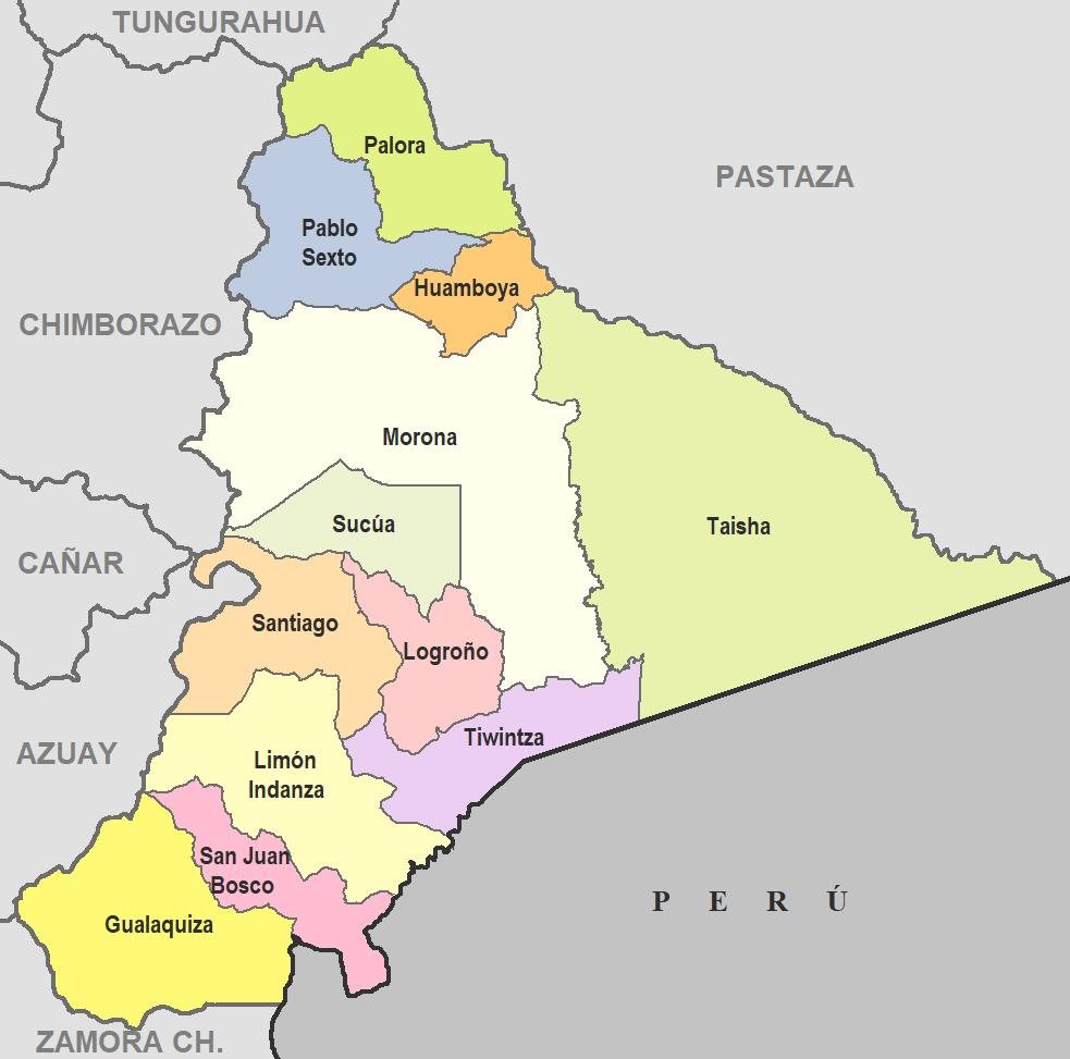 Cantons of Morona Santiago